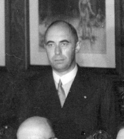 Gerardus Huysmans